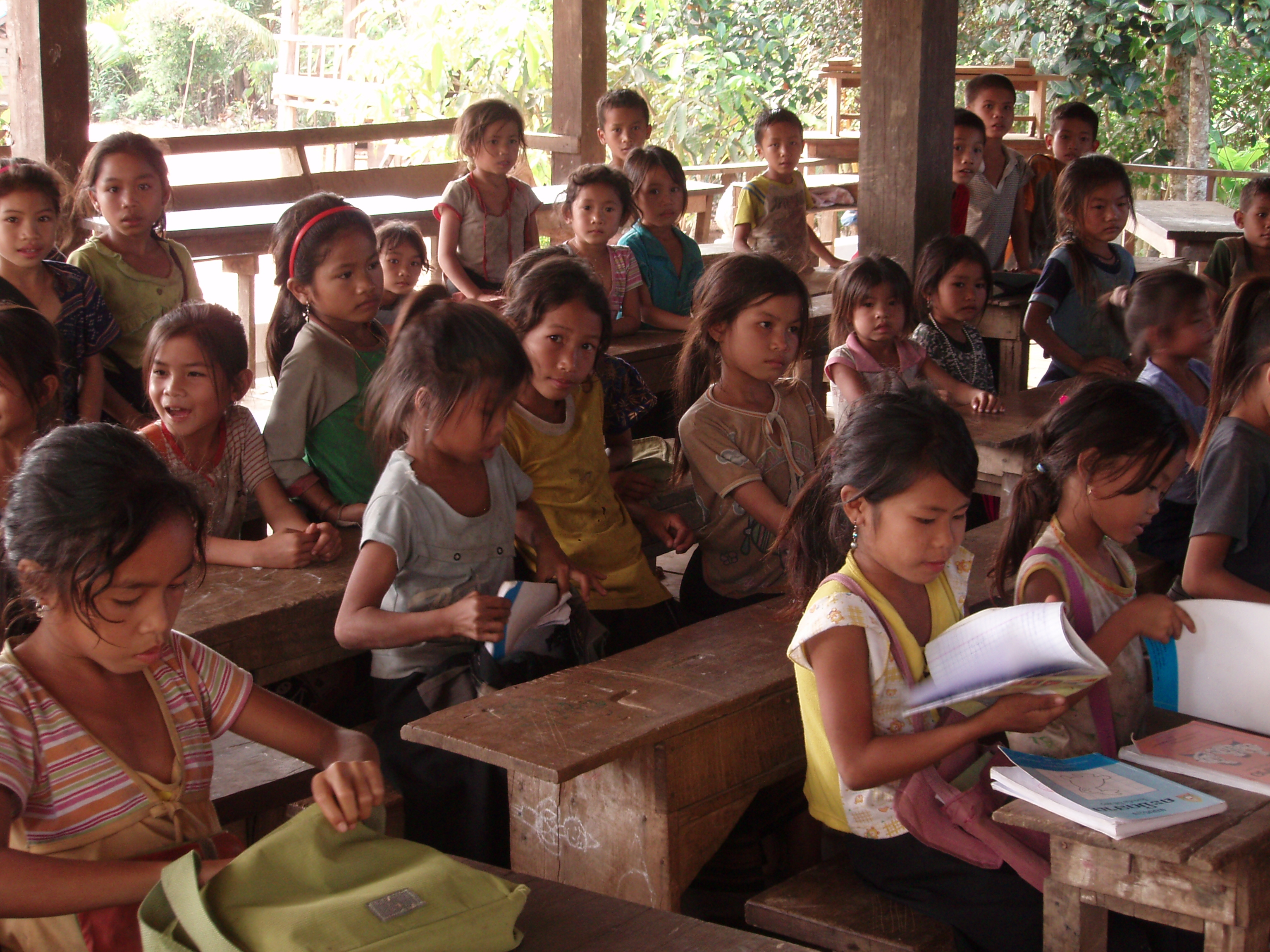 Pupils in a small village school in a rural area in northern Laos